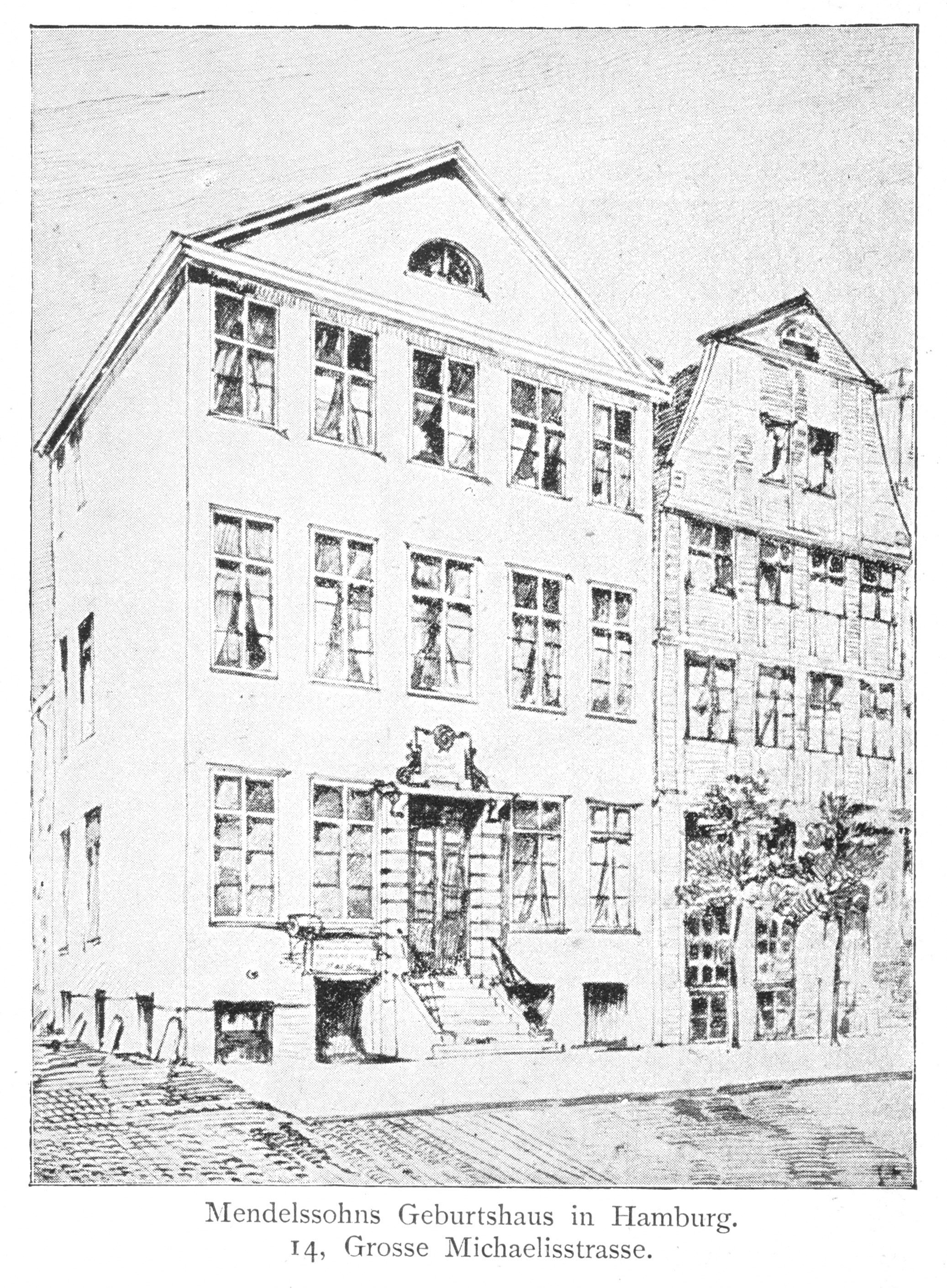 Felix Mendelssohn Bartholdy, Hamburg, birthplace, Grosse Michaelisstrasse